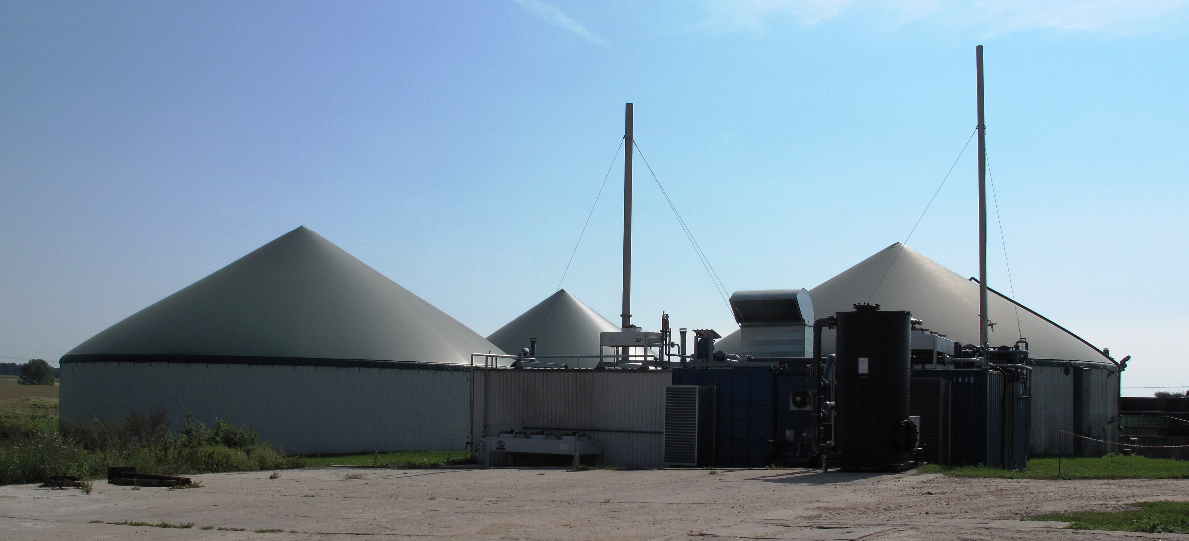 Anaerobic digestion in Ernsthof. Ernsthof is a hamlet of Grunow, a village of the municipality Oberbarnim in the District Märkisch-Oderland, Brandenburg, Germany. Ernsthof was founded in 1833 as folwark of Grunow.